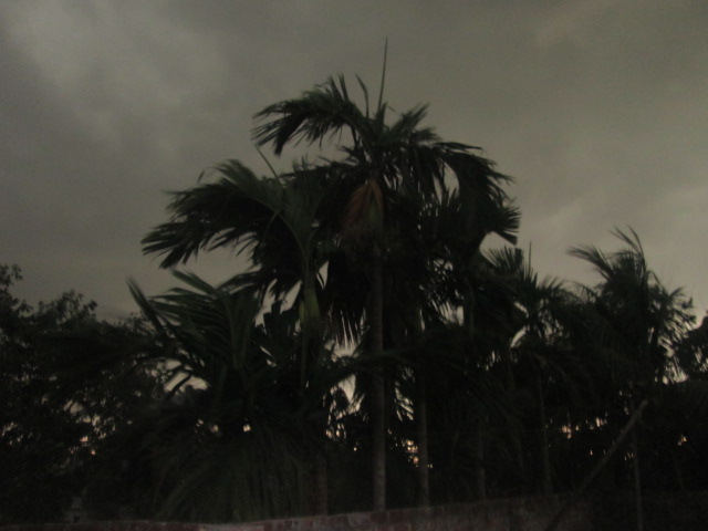 A Tree